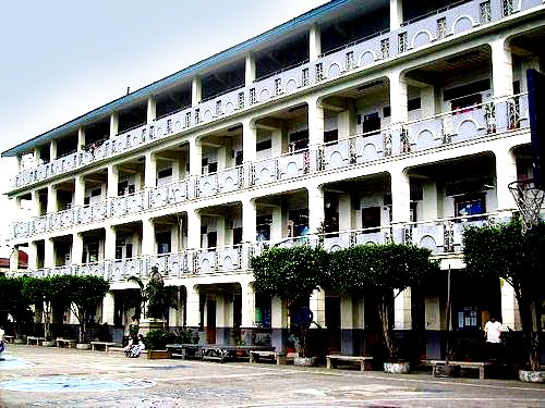 Francis Regis Clet Building (the building of Primary and Secondary Departments)